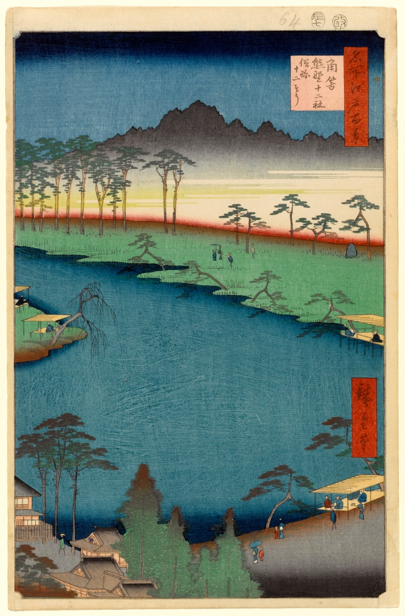 Part of the series One Hundred Famous Views of Edo, no. 050, part 2: Summer.